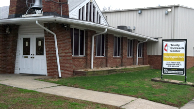 This is a photograph of Trinity Outreach Center.